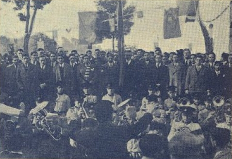 A choral society directed by maestro António Martins sings the anthem of the Caminho de Ferro do Vale do Vouga (Vouga Valley Railway) at the Vila da Feira train station, at the arrival of the special train which transported the guests to a regional exhibition on the station. This event was part of the I Congresso Regional Ferroviário (First Regional Railway Congress), organized by the company of Vouga Valley Railway, in Portugal. This image was originally published in the Gazeta dos Caminhos de Ferro No. 1105, of the 1st January 1934, and scanned by the Hemeroteca Municipal de Lisboa.